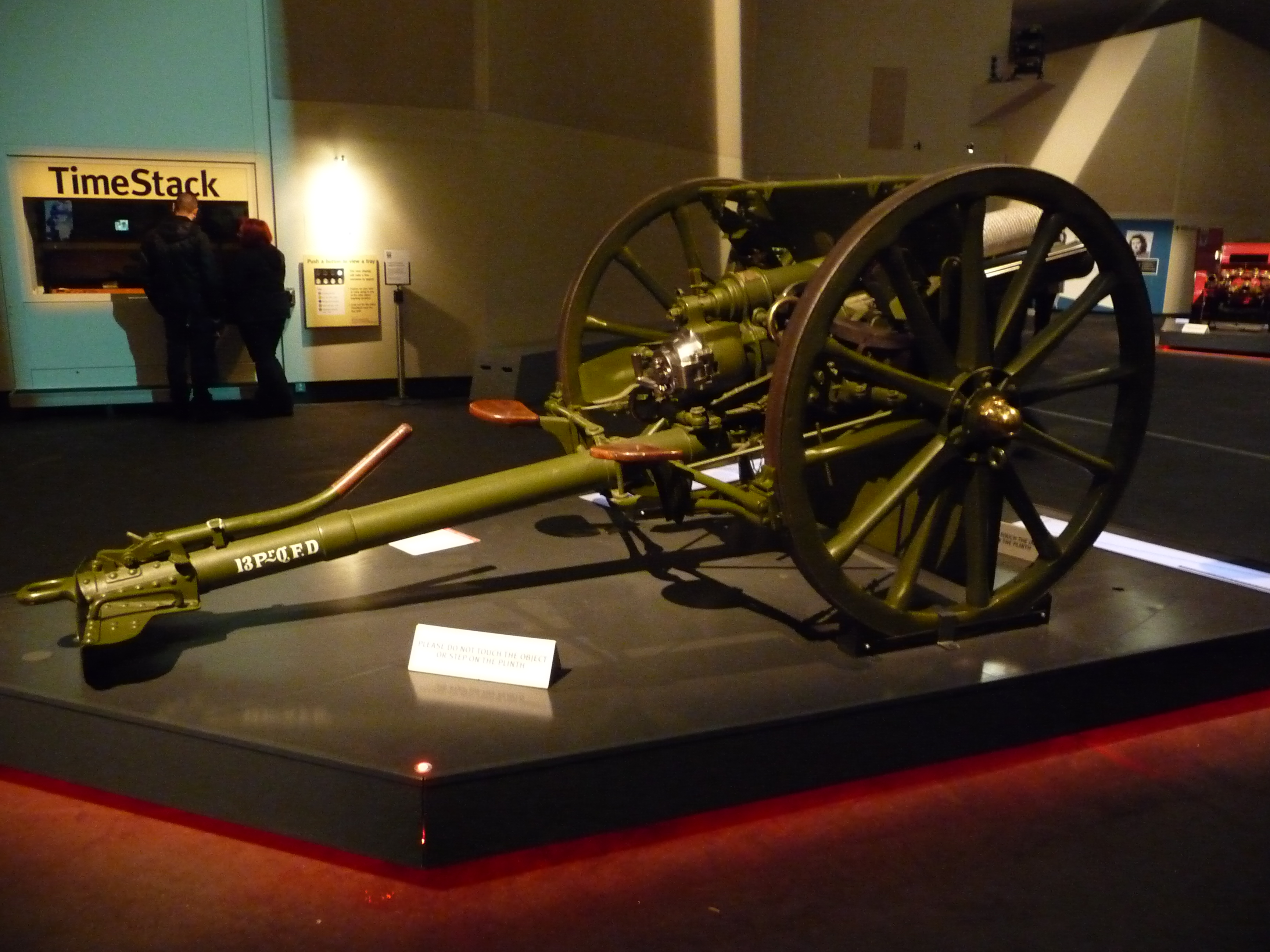 Photograph of QF 13 pounder field gun, at Imperial War Museum North, Manchester. This is the gun of E Battery, Royal Horse Artillery, that fired the first British artillery shot on the Western Front in World War I, on 22 August 1914. For view from left front see File:13 pounder gun at IWM North Flickr 8056248163.jpg